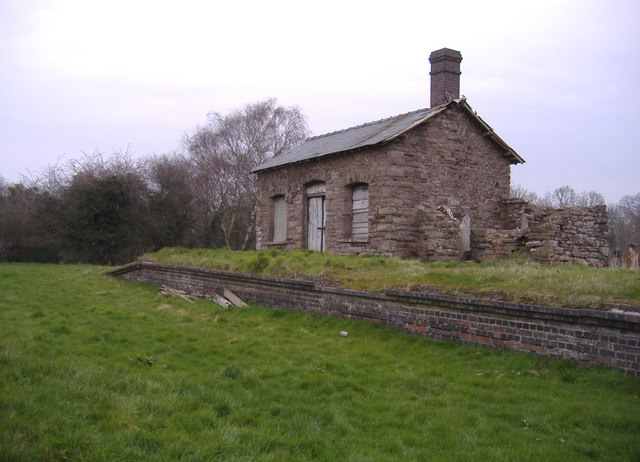 Station platform, Almeley